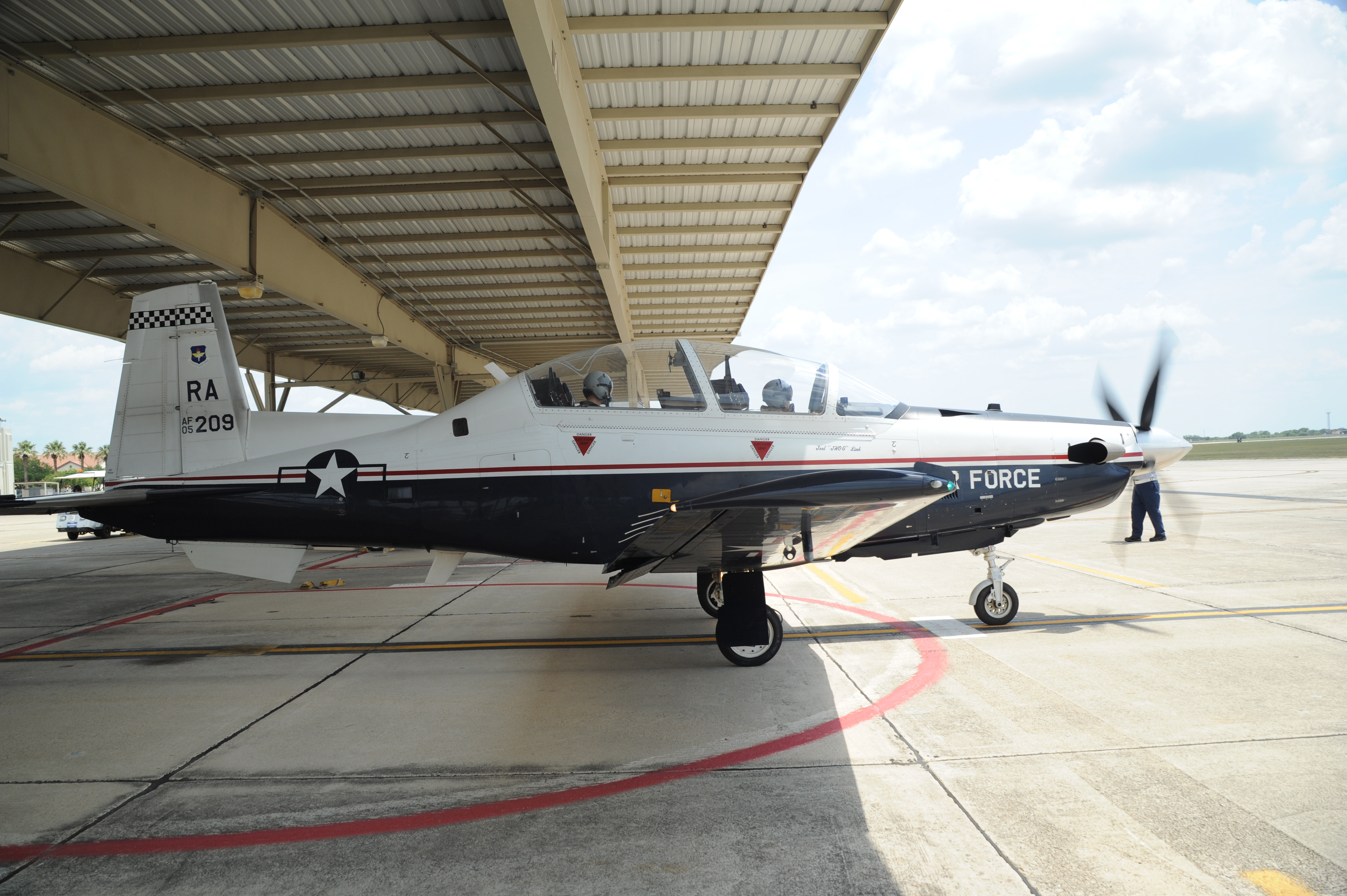 Major Marcus Janecek, 559th Flying Training Squadron instructor pilot and Air Force Academy Cadet Johnathan Fonbuena taxi to take off during his orientation flight in the T-6 Texan II aircraft at Randolph Air Force Base July 19. (U.S. Air Force photo/Rich McFadden) (released)